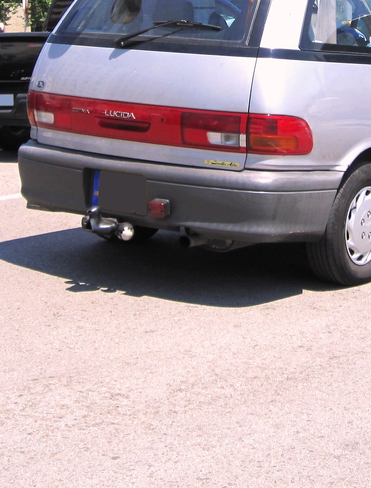 Date of Liability01 05 2011 Date of First Registration23 02 2004 Year of Manufacture1992 Cylinder Capacity (cc)2180CC Fuel TypeHeavy Oil Vehicle StatusLicence Not Due Vehicle ColourSILVER